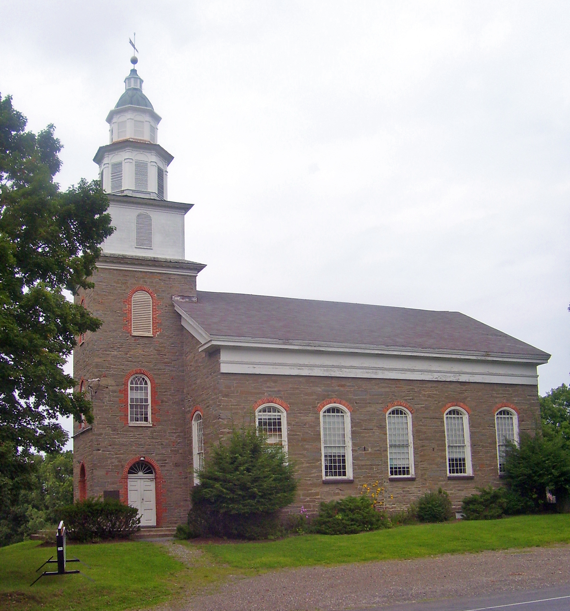 Evangelical Lutheran Church of St. Peter, Rhinebeck, NY, USA